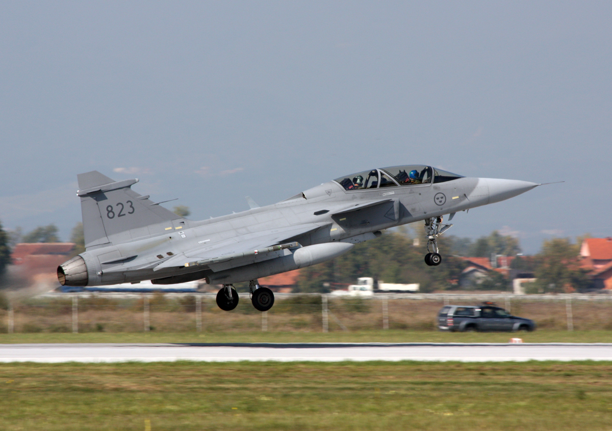 JAS 39D Gripen of Sweden Air Force on Zagreb airport.